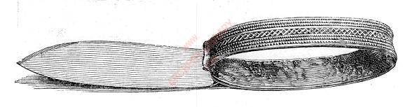 A drawing ring for bow and a dagger, called a loop dagger from West Afrika